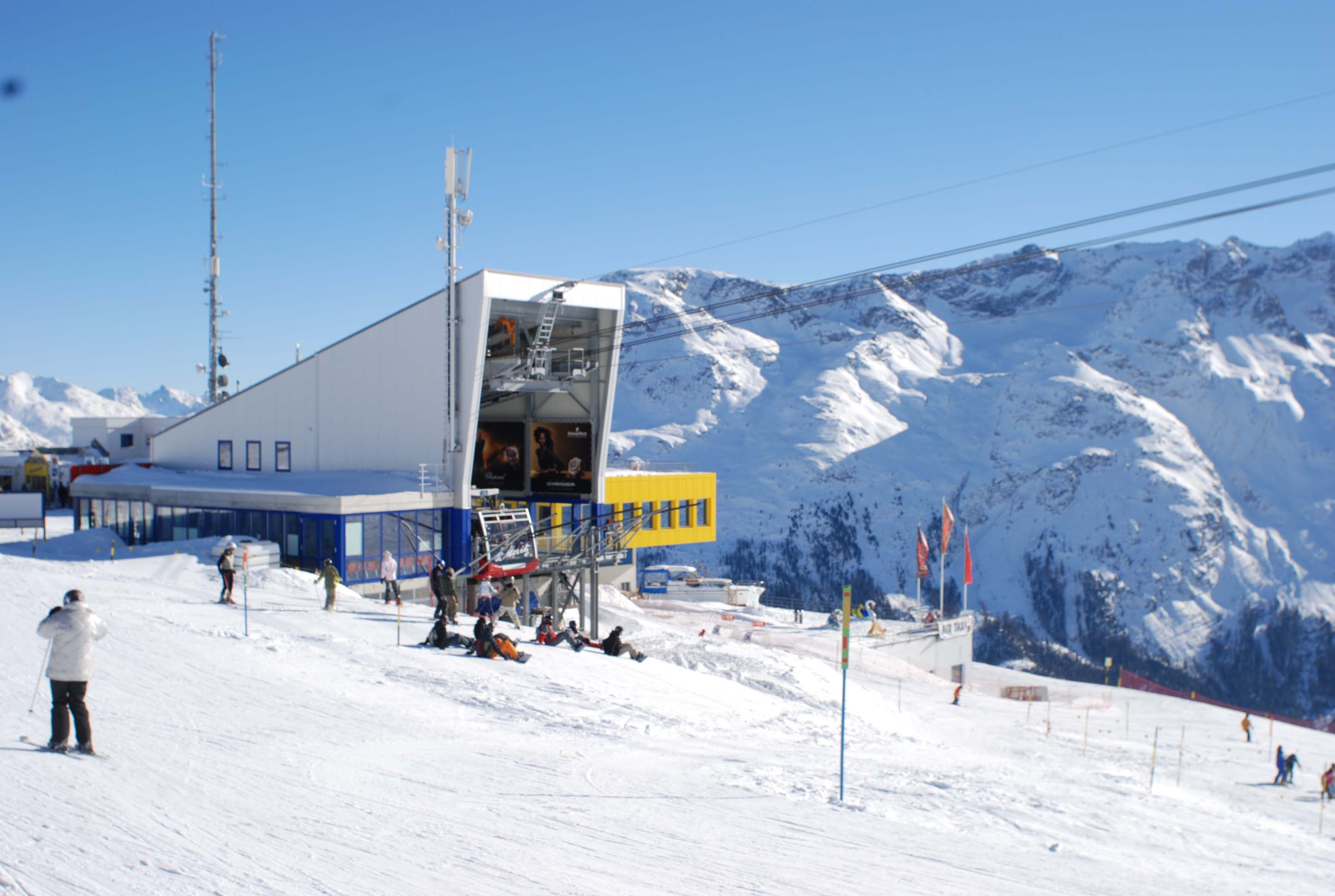 A boat in St.Moritz (look carefully!)